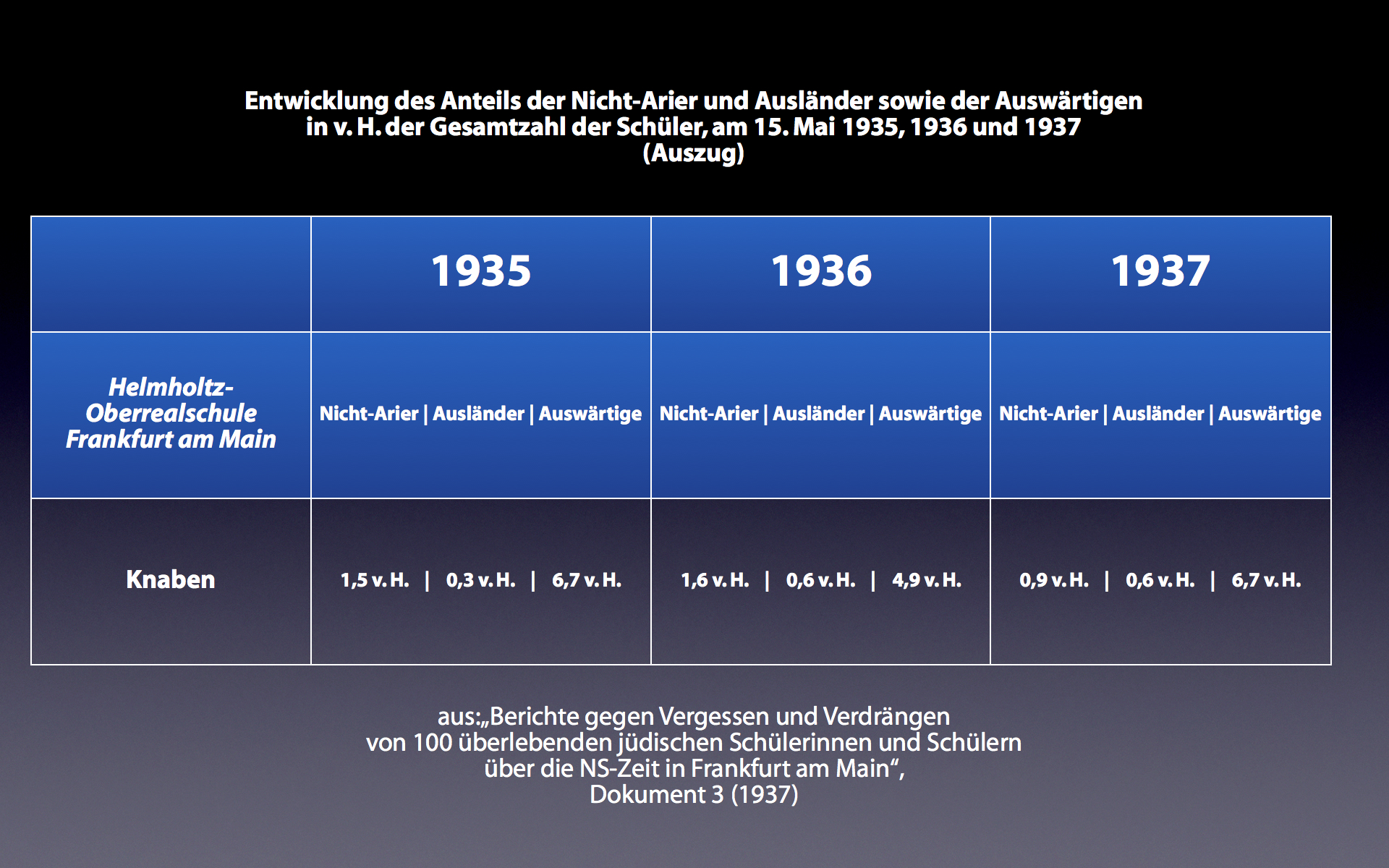 Statistics of Helmholtzschule per 1 May 1935, 1936 and 1937 in order to classify non-Arian pupils, aliens and out-of-towners. Research by local school administration in upper schools of Frankfurt am Main, Hesse, Germany.